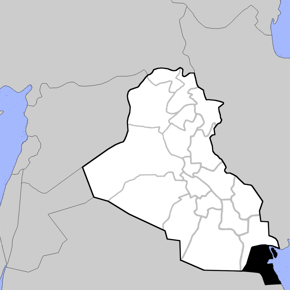 Administrative divisons of Iraq - borders of the provinces (governorates) between 1976 and 2003 according to Fischer Weltalmanach '97, page 305f. (Fischer, Frankfurt/Main 1996), Kleines Nachschlagewerk Asien, page 220 (Dietz Verlag, Berlin 1987) and Haack Handkarte Asien, page 2 (Haack, Gotha 1989). Between 1990 and 1991 Kuwait was annexed as Iraq's 19th province.